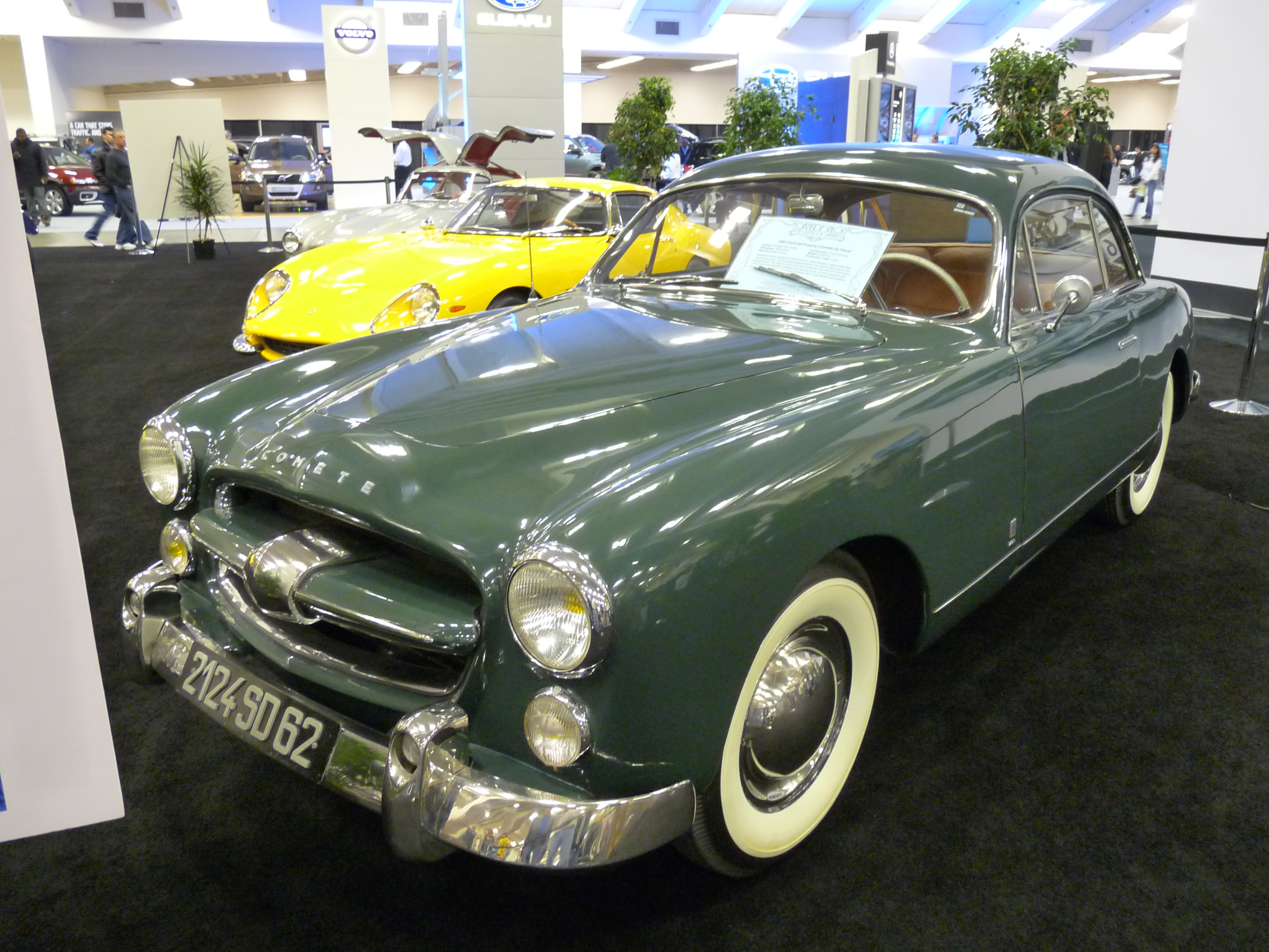 1953 Ford Comète, Ford France San Francisco Auto Show 2008. Chassis no 1016, engine no 4F22E606523.